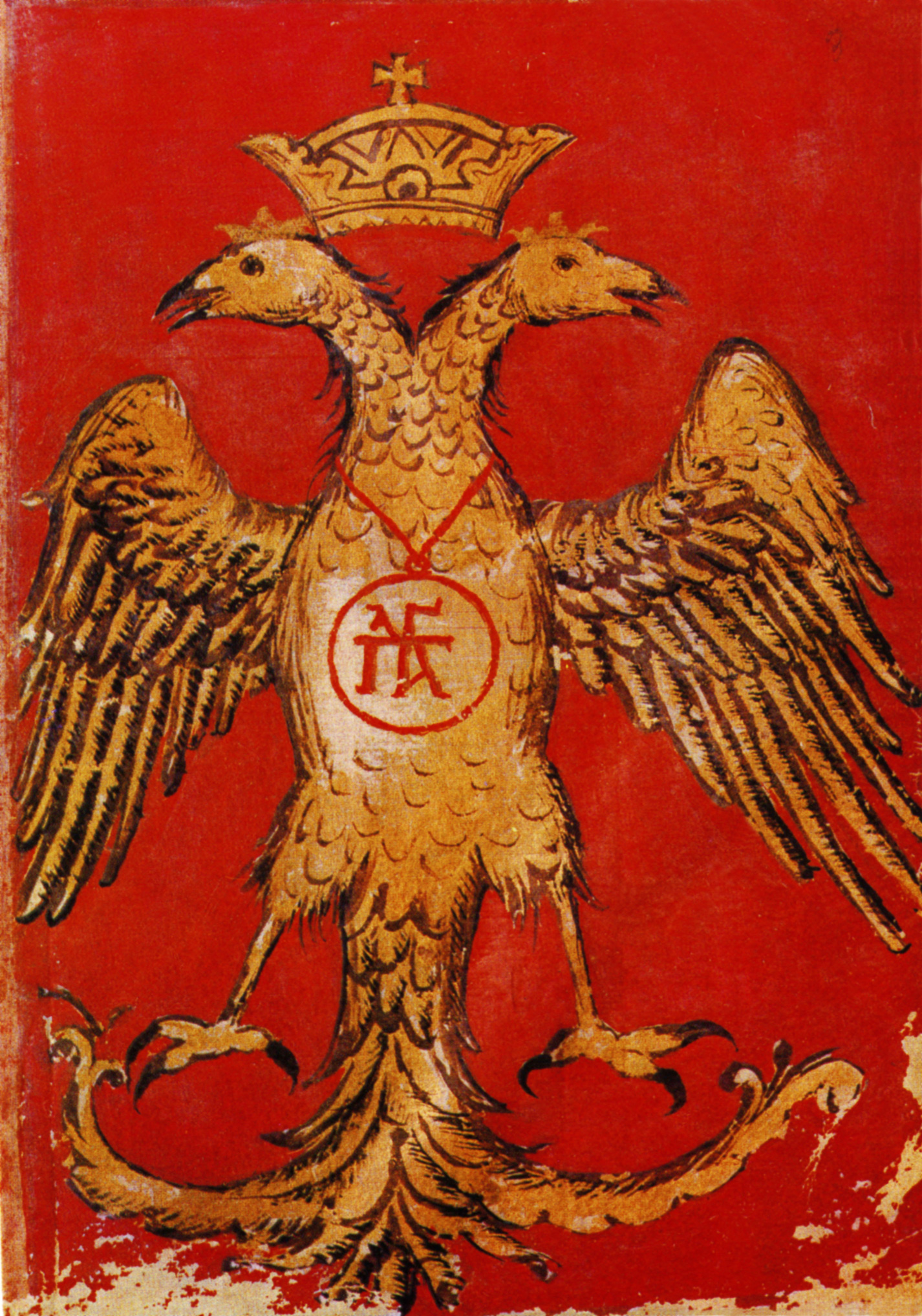 Device of the Emperor John VIII Palaiologos, featuring the Byzantine double-headed eagle and the sympilema (the family cypher) of the Palaiologos dynasty. Byzantine miniature.